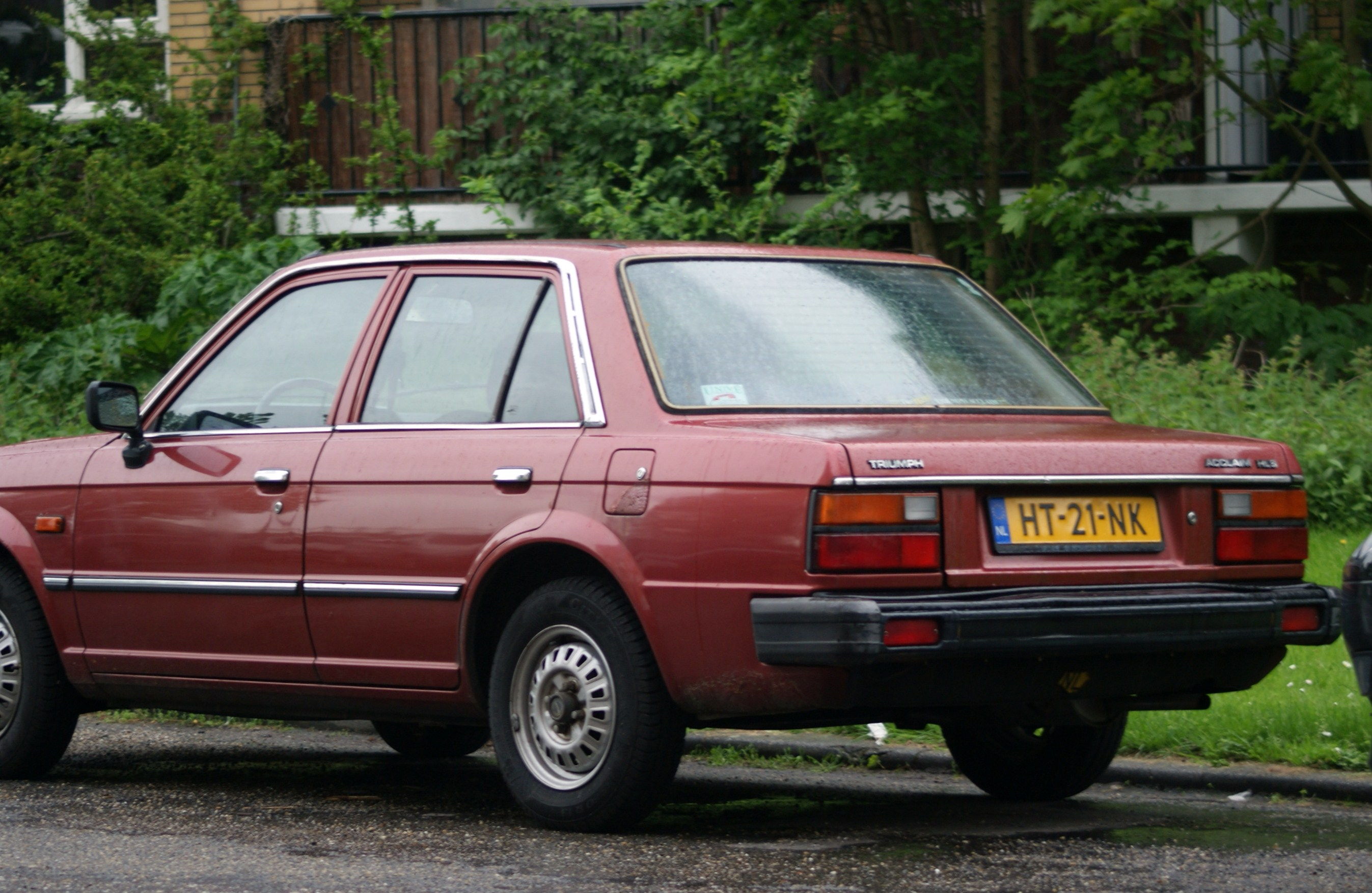 HT-21-NK I could only use my telephoto lens, but the car didn't fit...